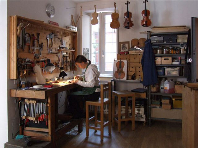 Workshop of Hildegard Dodel, luthier in Cremona (Italy)